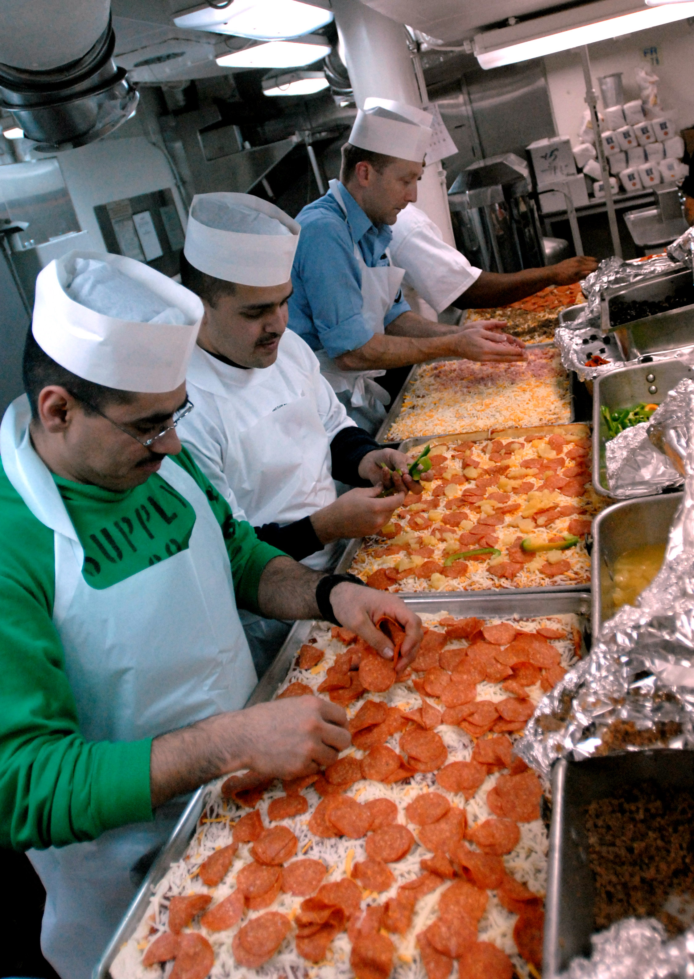 SOUTH CHINA SEA (Apr. 6, 2007) - Members of USS Ronald Reagan (CVN 76) First Class Association prepare and put toppings on pizzas in the galley as part of a special dinner prepared for the crew. The Ronald Reagan Carrier Strike Group (CSG) is underway on a surge deployment in support of U.S. military operations in the Western Pacific. U.S. Navy photo by Mass Communication Specialist 2nd Class Dominique M. Lasco (RELEASED)